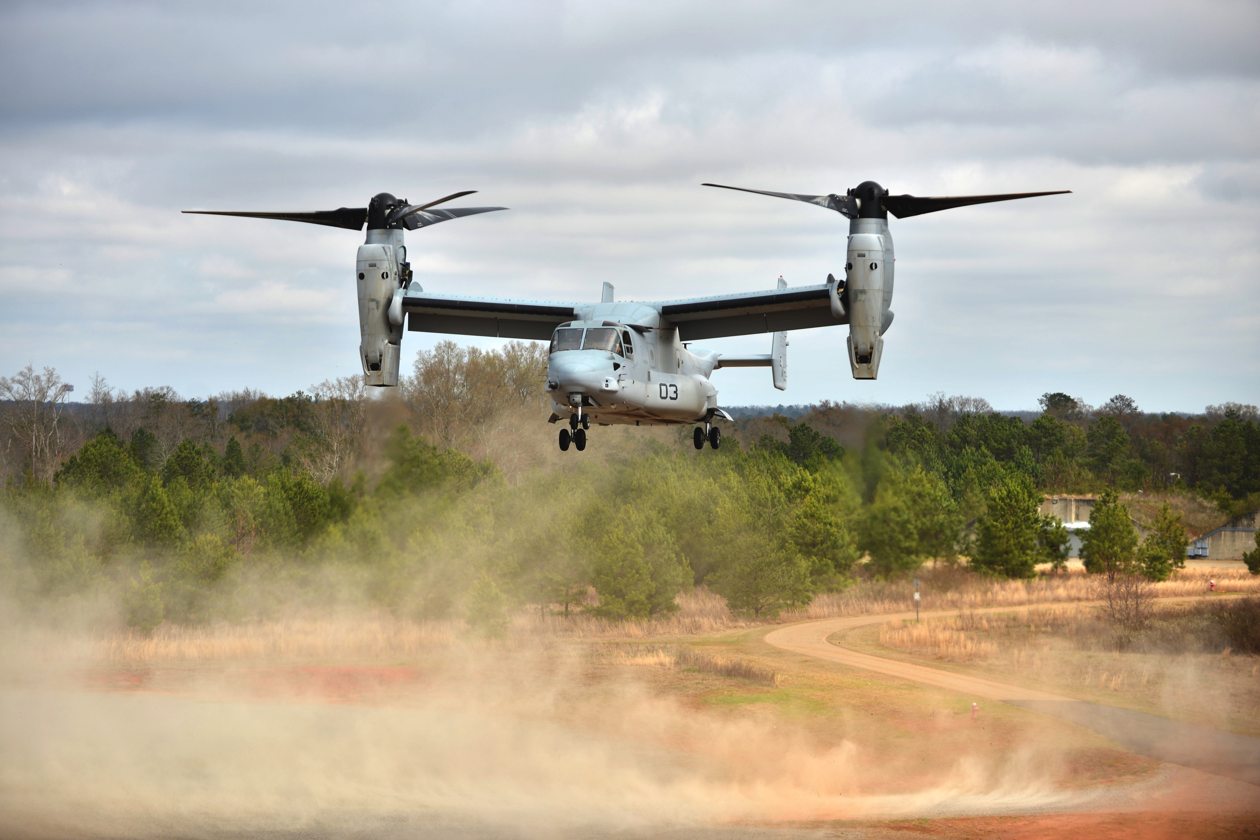 Pararescue Jumpers and Combat Rescue Officers from the 301st and 308th Rescue Squadron (both part of the 920th Rescue Wing) conduct joint training with a Marine Osprey tilt-rotor aircraft at the Guardian Center training facility on March 11, 2015. (New York Air National Guard / Staff Sergeant Christopher S Muncy / released)